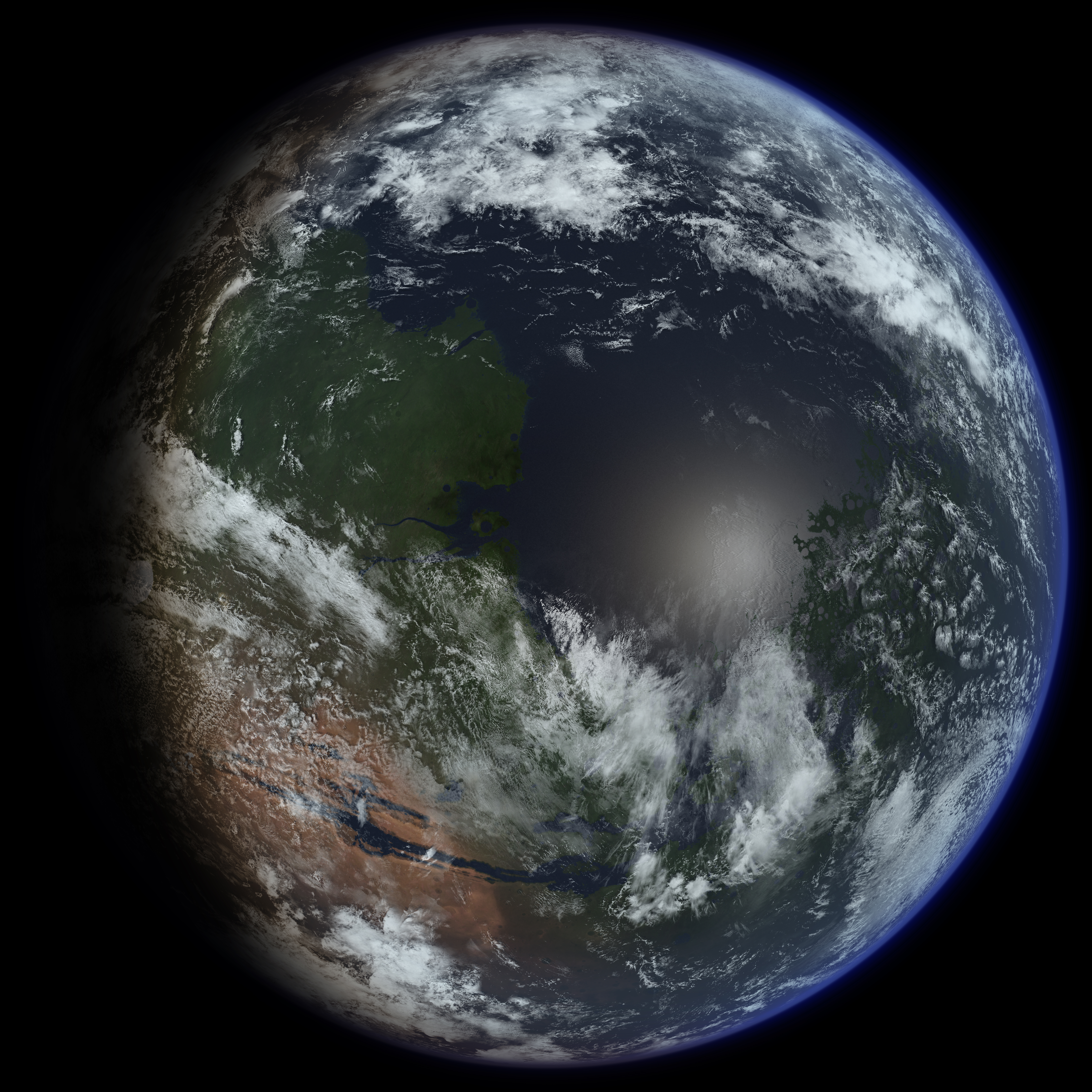 An image I made to replace my older TerraformedMarsGlobeRealistic.jpg image, but I'm uploading this as a new image since the old one is a featured picture. This image is centered northeast of Valles Marineris.